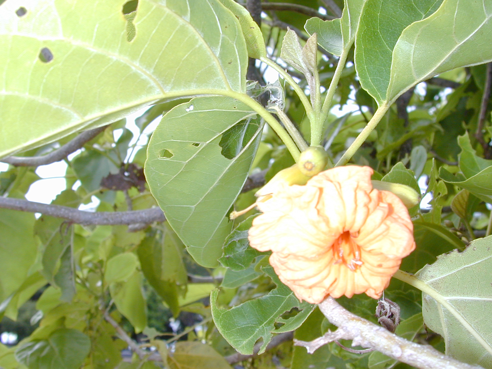 Cordia subcordata (flower). Location: Maui, Kanaha Beach